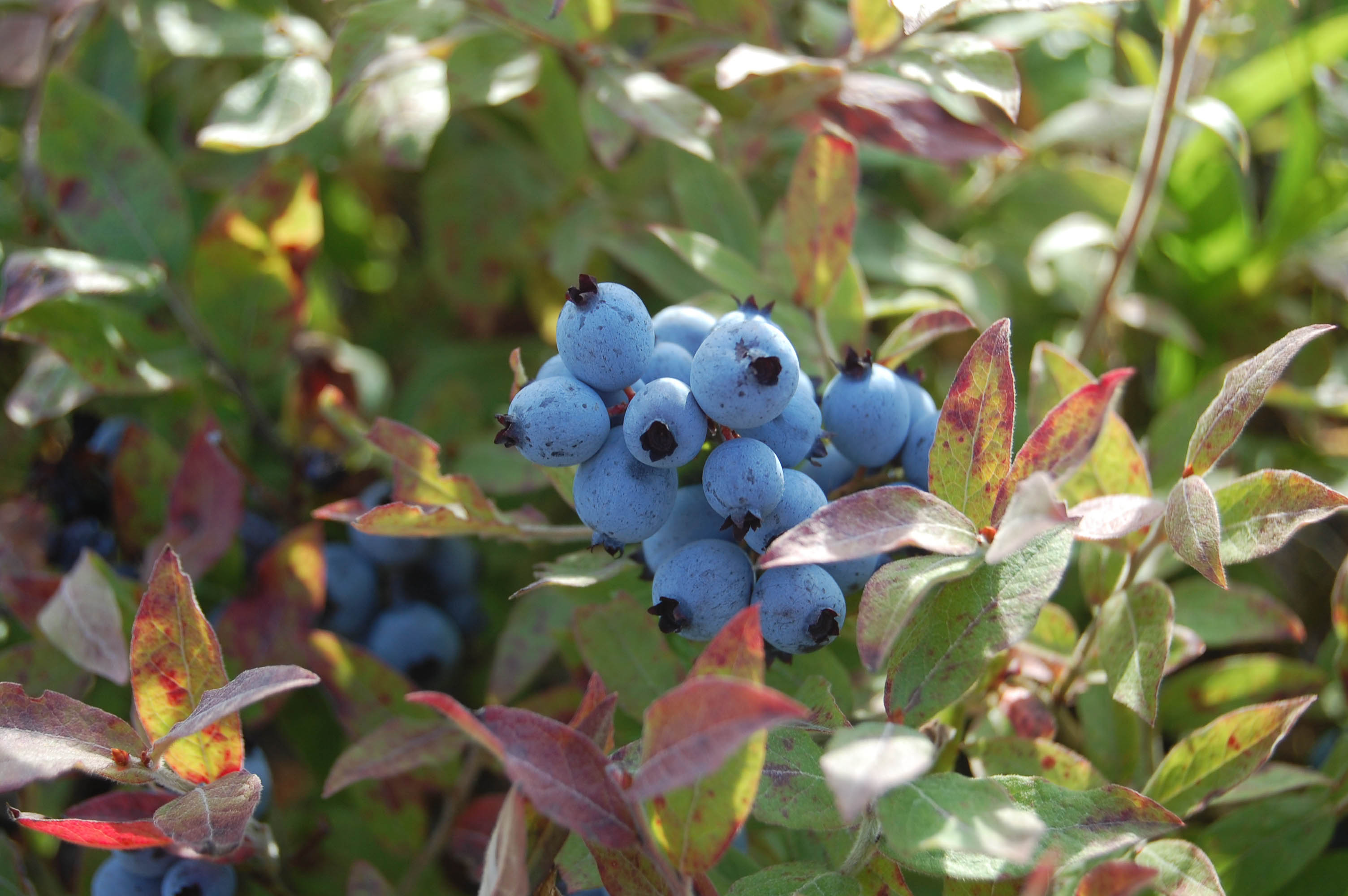 Organic wild Maine blueberries in Whiting, Maine